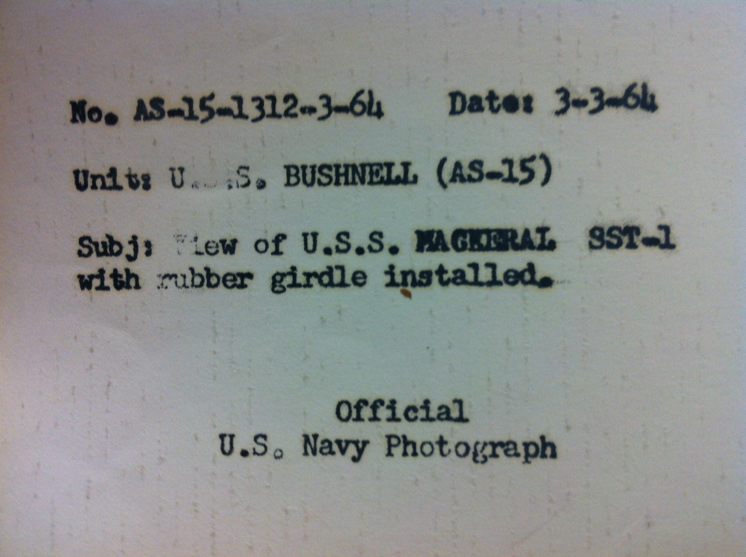 Original US Navy photographic data appearing on back of photograph.